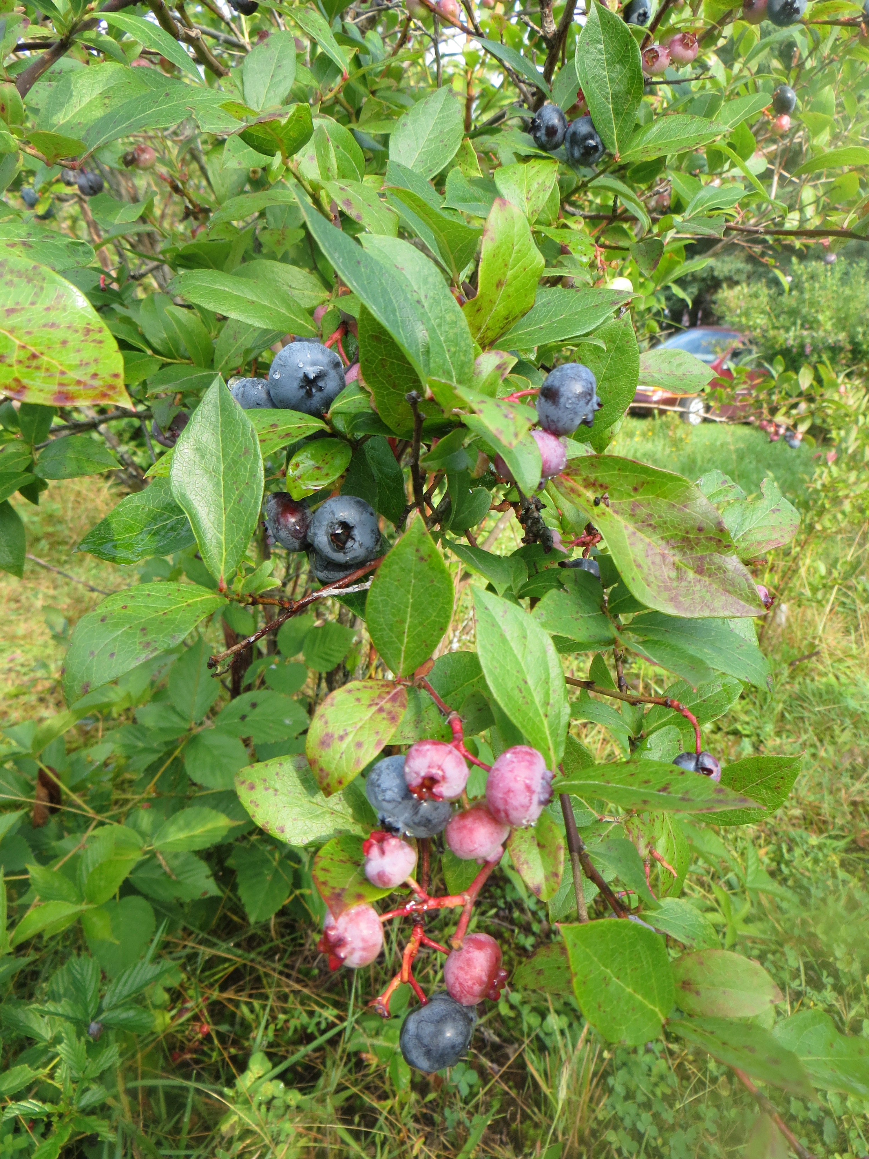 Blueberries on a farm in northern michigan, taken August or September 2013